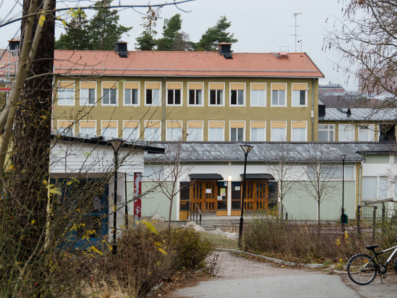 Helenelund School from Brötvägen, Sollentuna 2012-11-25